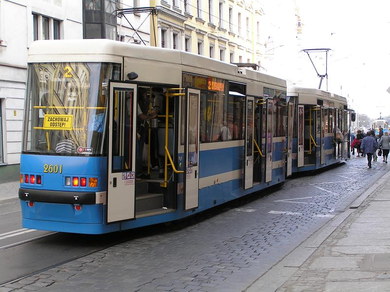 Protram 204 WrAs type tram in Wrocław, Poland.